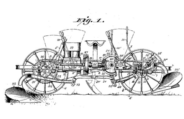 Schloemer two sided plow